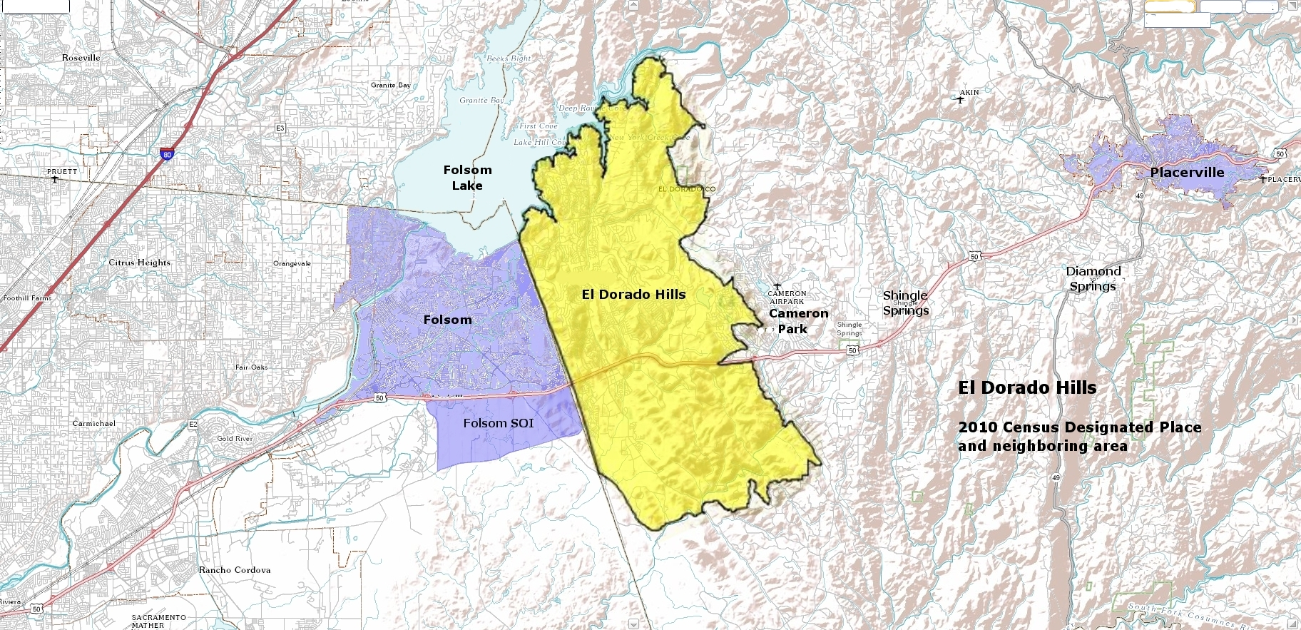 Map of the 2010 Census Designated Place for El Dorado Hills, overlayed onto a map from the USGS "The National Map" web source